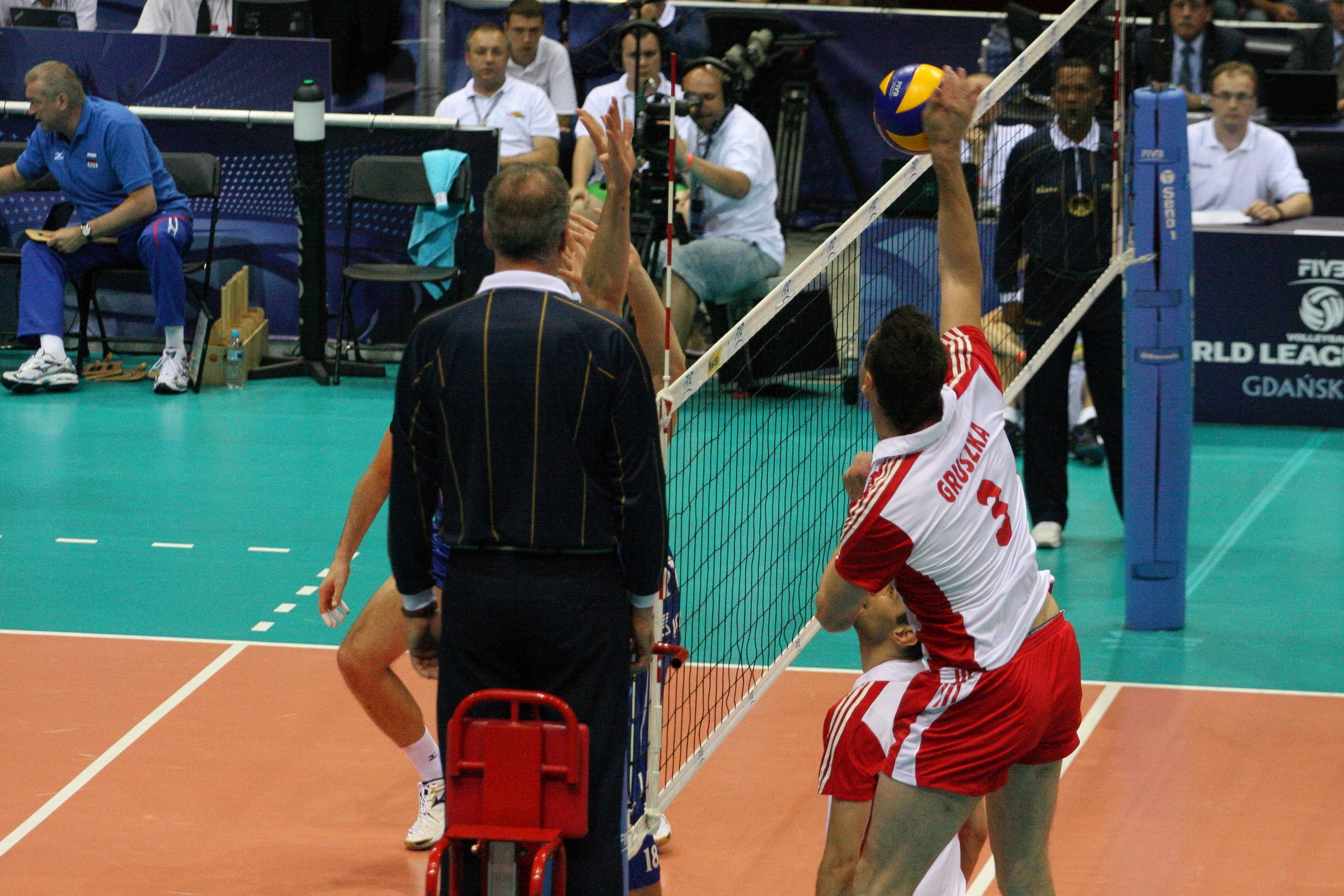 World League Finals, Gdańsk 2011 Brazil vs Argentina; Poland vs Russia